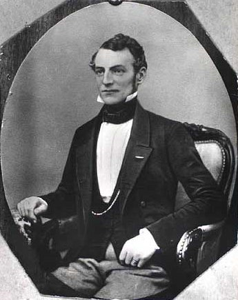 Frederik Michael Liebmann (1814-1856), Danish botanist